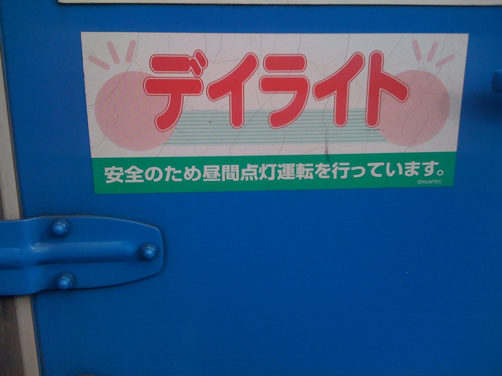 The trailing vehicle "Daylight" stickers